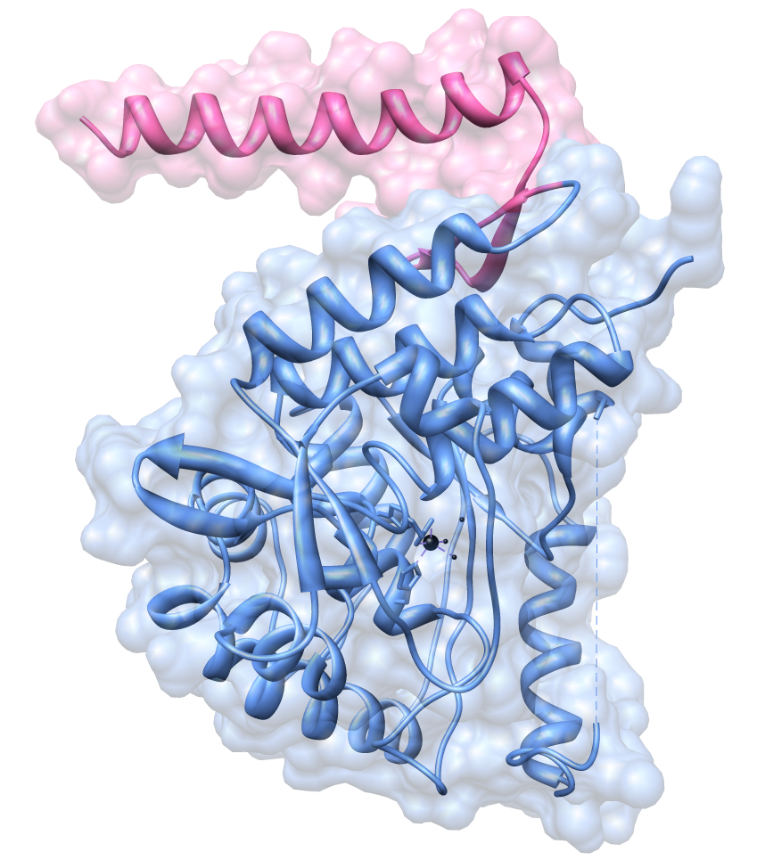 This image shows tyrosine hydroxylase's tetramerization (pink) and catalyzation (blue) domains.